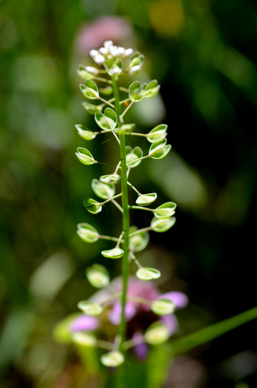 Microthlaspi perfoliatum